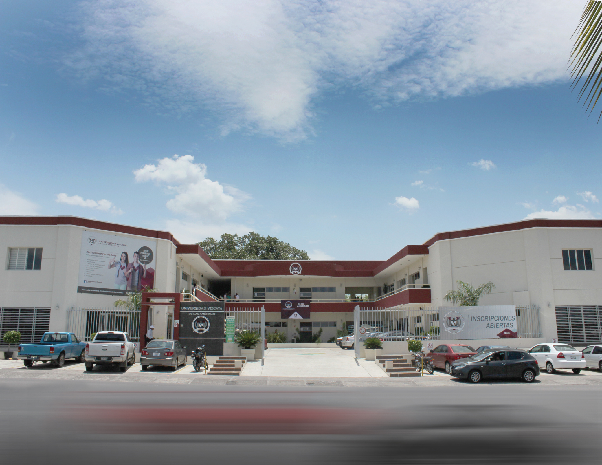 Campus Colima